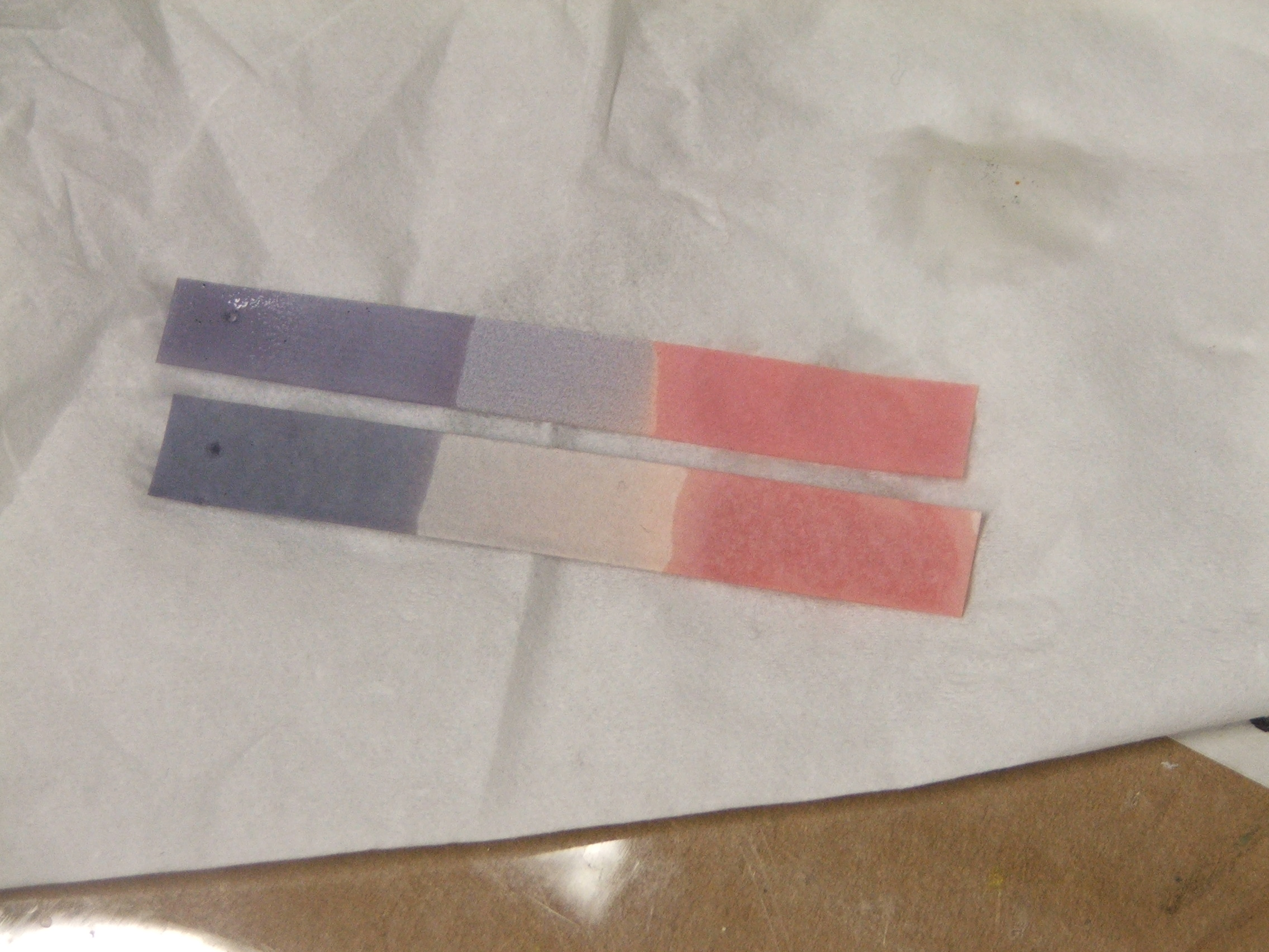 Blue (top) and red (bottom) litmus paper. When litmus paper is placed in acid, the red stays red (bottom right) and the blue turns red (top right). When litmus paper is placed in base, the blue stays blue (top left) and the red turns blue (bottom left).